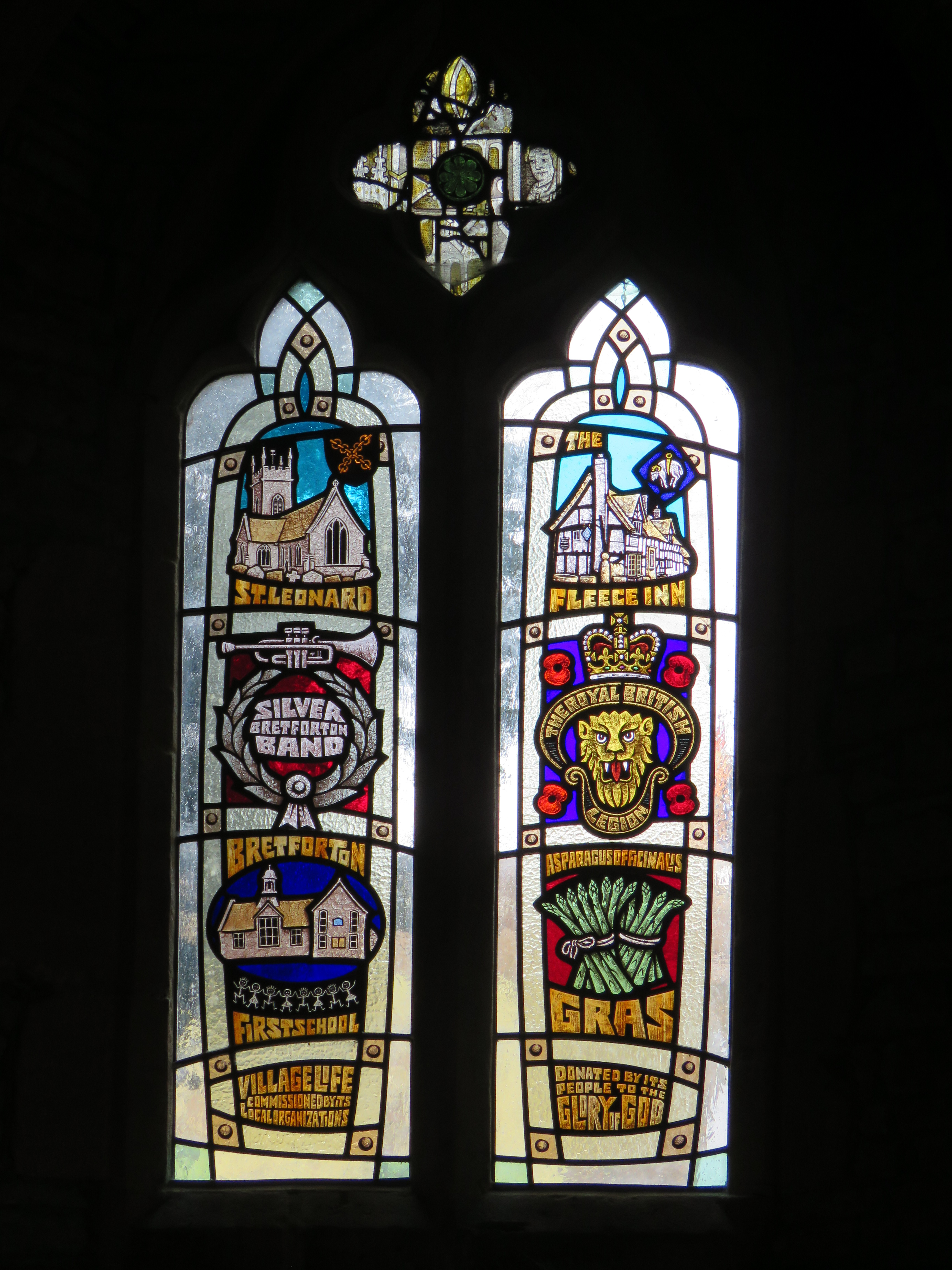 Stained glass window, St Leonard's, Bretforton, Worcestershire